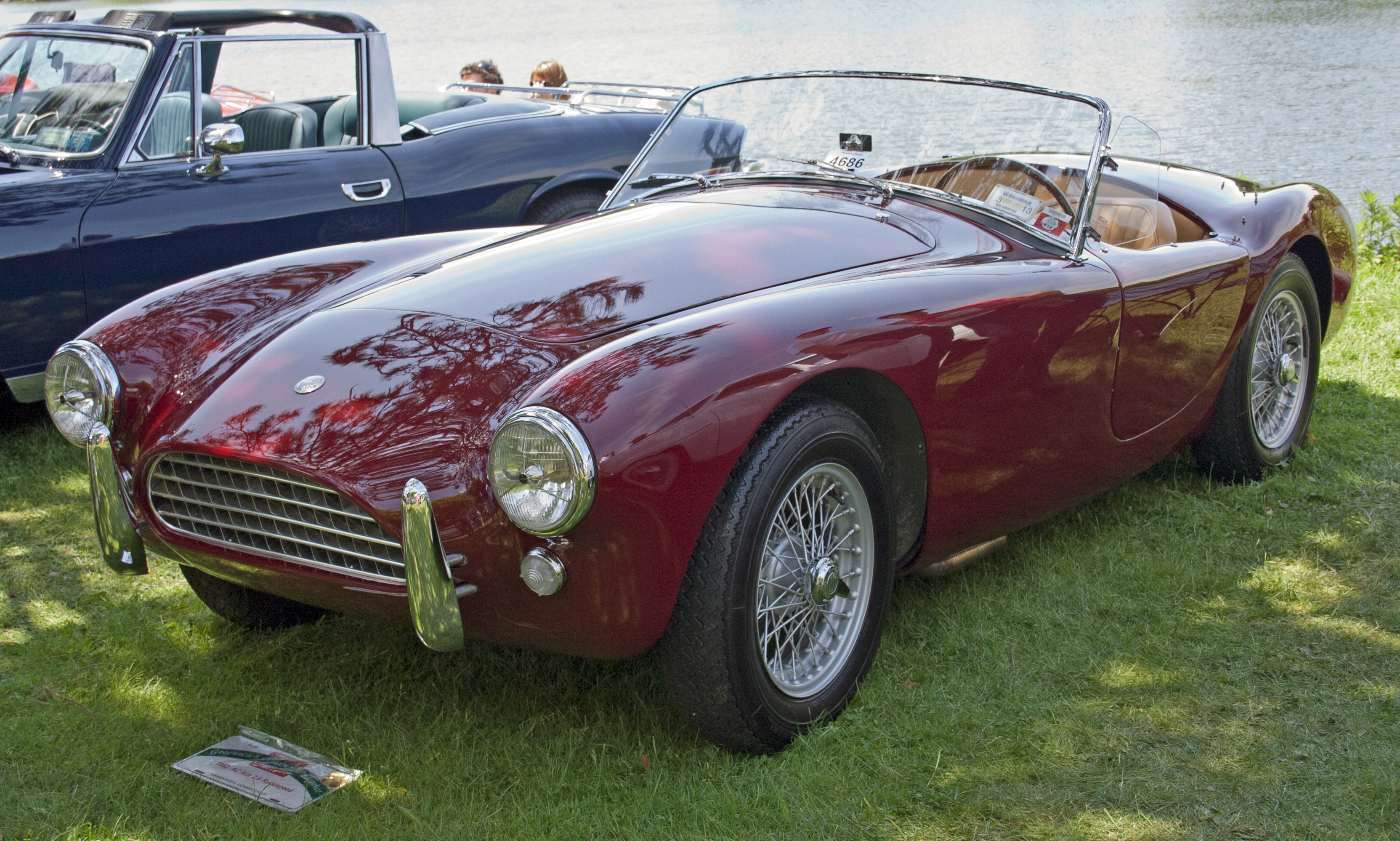 1962 AC Ace 2.6 Ruddspeed at the 2012 Greenwich Concours d'Elegance. Only 37 of these Ford Zephyr-engined Aces were built, as it was quickly superceded by the V8-engined Cobra. The Ace 2.6 also received a smaller grille, which was retained for the 289 Cobra.